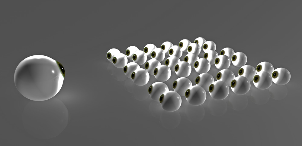 computer generated classroom made of eyeballs. rows of pupils obey the orders of the eye-teacher